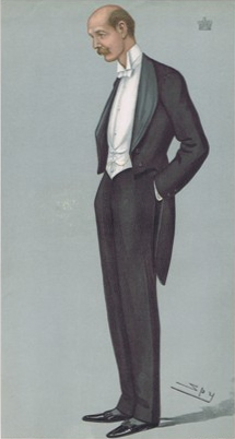 Caricature of Lord EH Cecil. Caption read "at Mafeking".